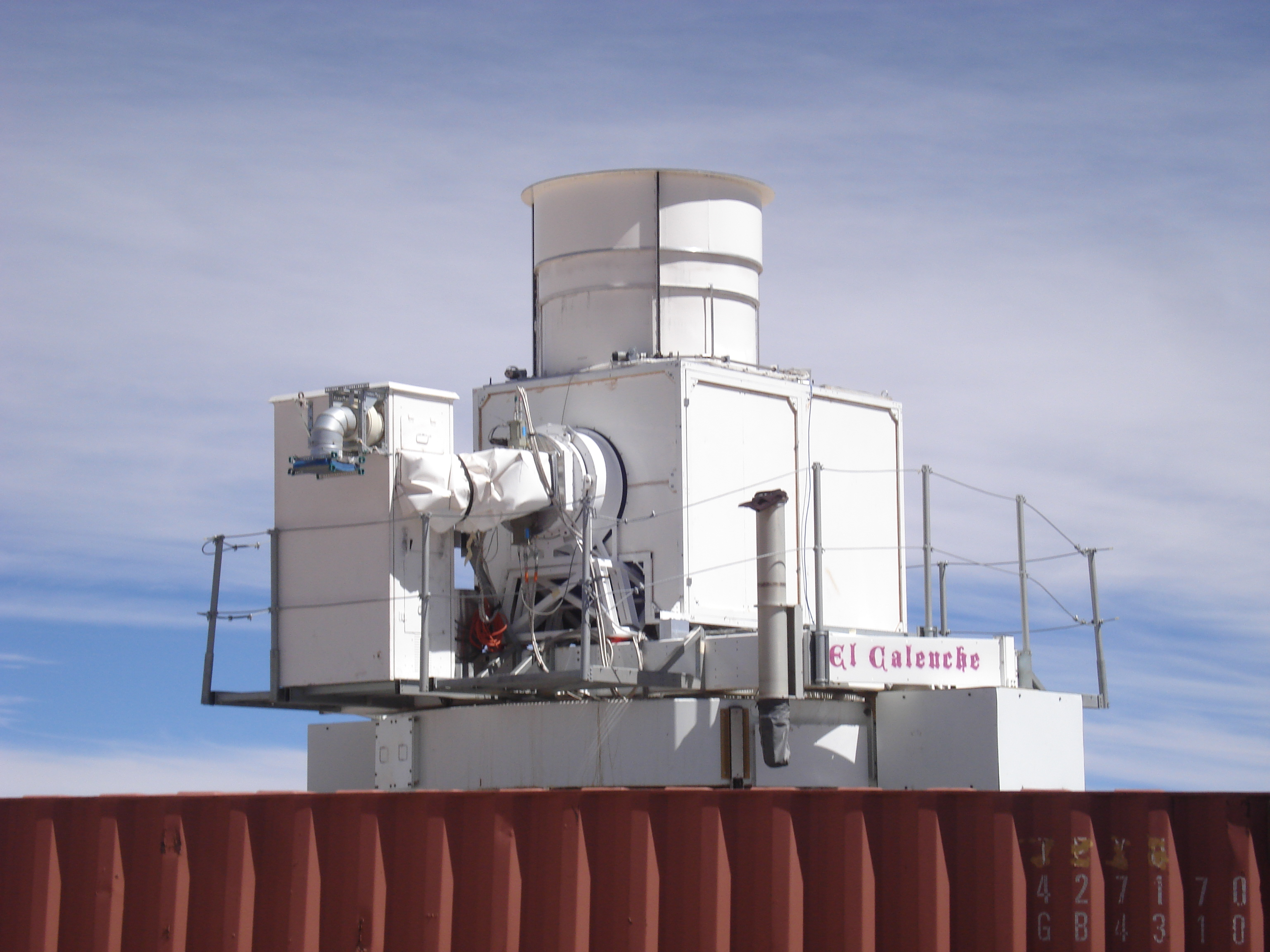 The QUIET cosmic microwave background (CMB) polarization telescope, at the Llano de Chajnantor Observatory in Atacama, Chile.